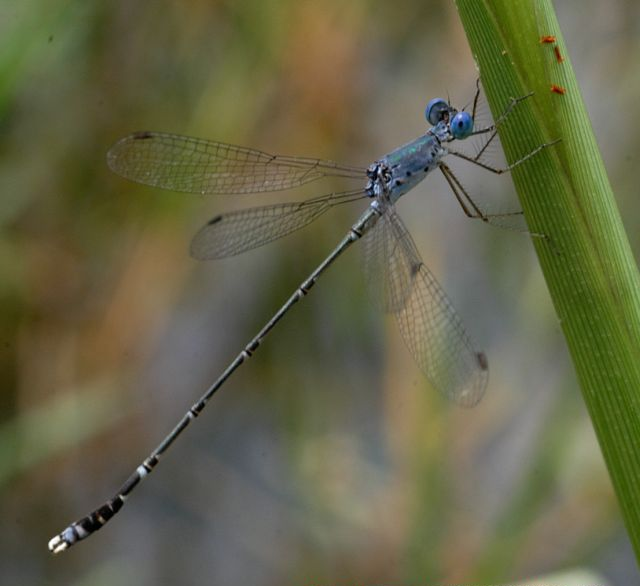 Lestes praemorsus damselfly , Bannerghatta, India